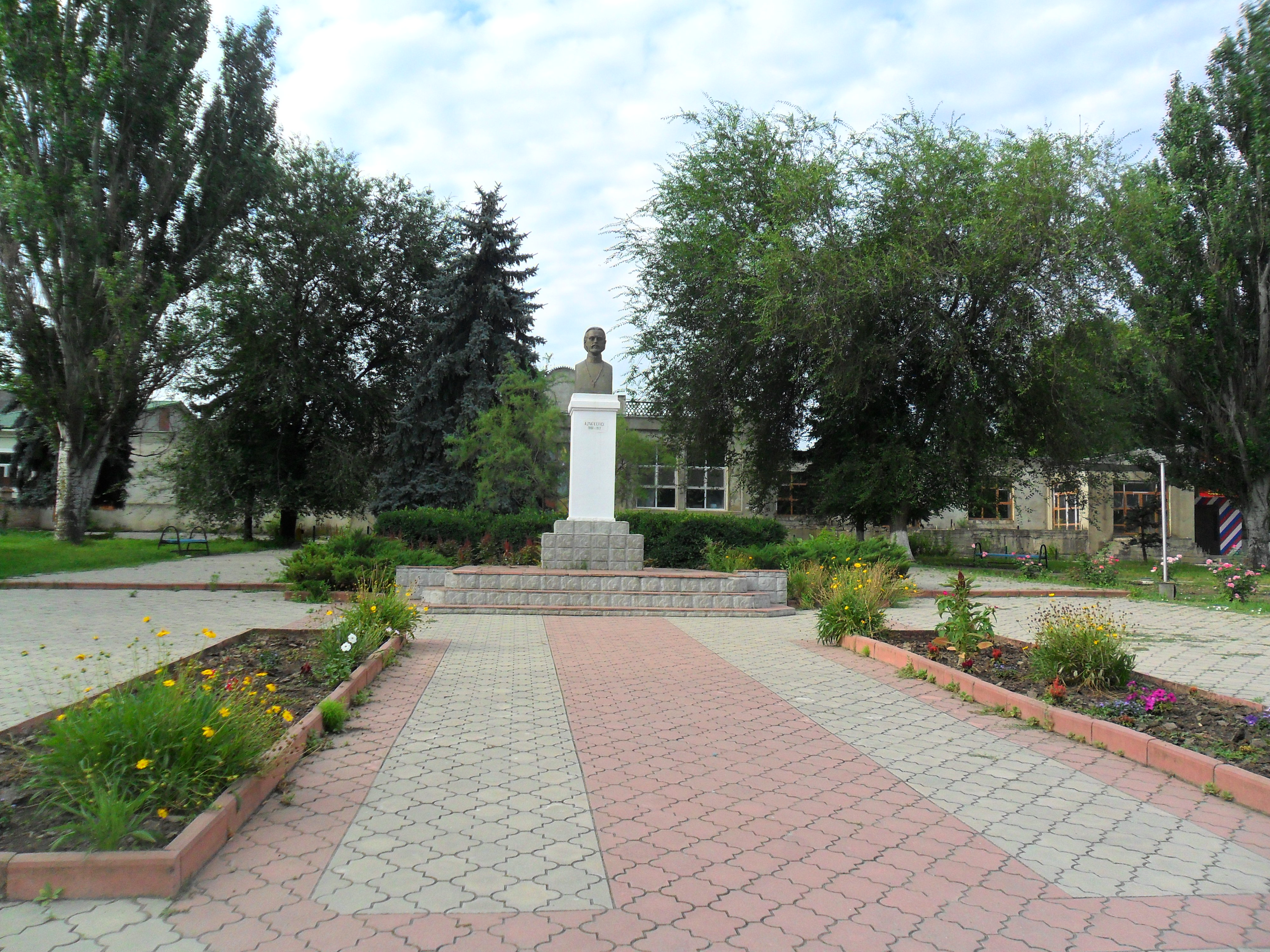 Bust to Alexei Mateevici in Căușeni, with garden